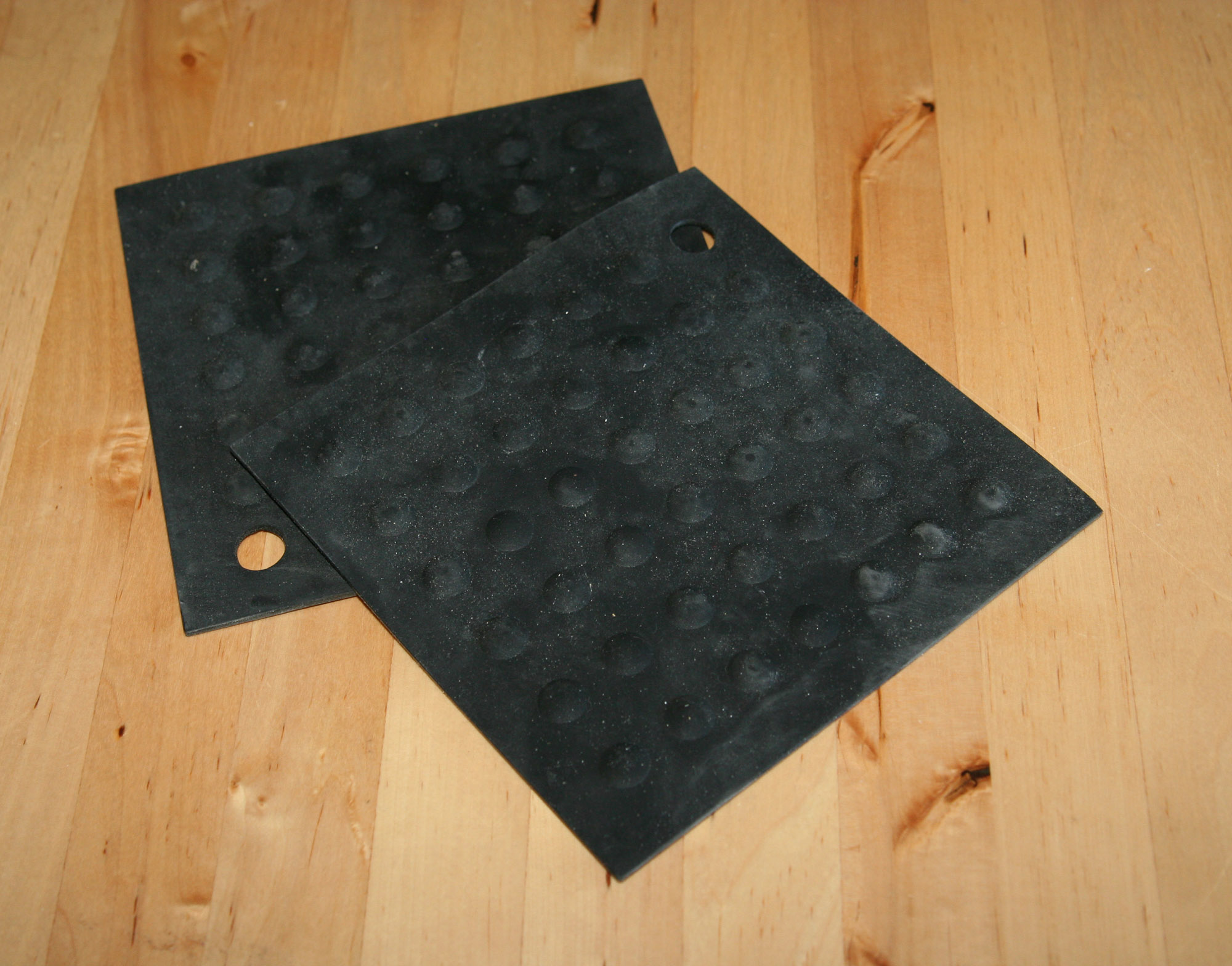 Potholders in rubber